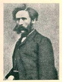 Richard Karlovich Maack (also Richard Karlovic Maak Russian Ричард Карлович Маак, born 9 September 1825 in Arensburg (now Kuressaare), died 25 November 1886 in St. Petersburg) was a 19th century Russian naturalist, botanist, and anthropologist.